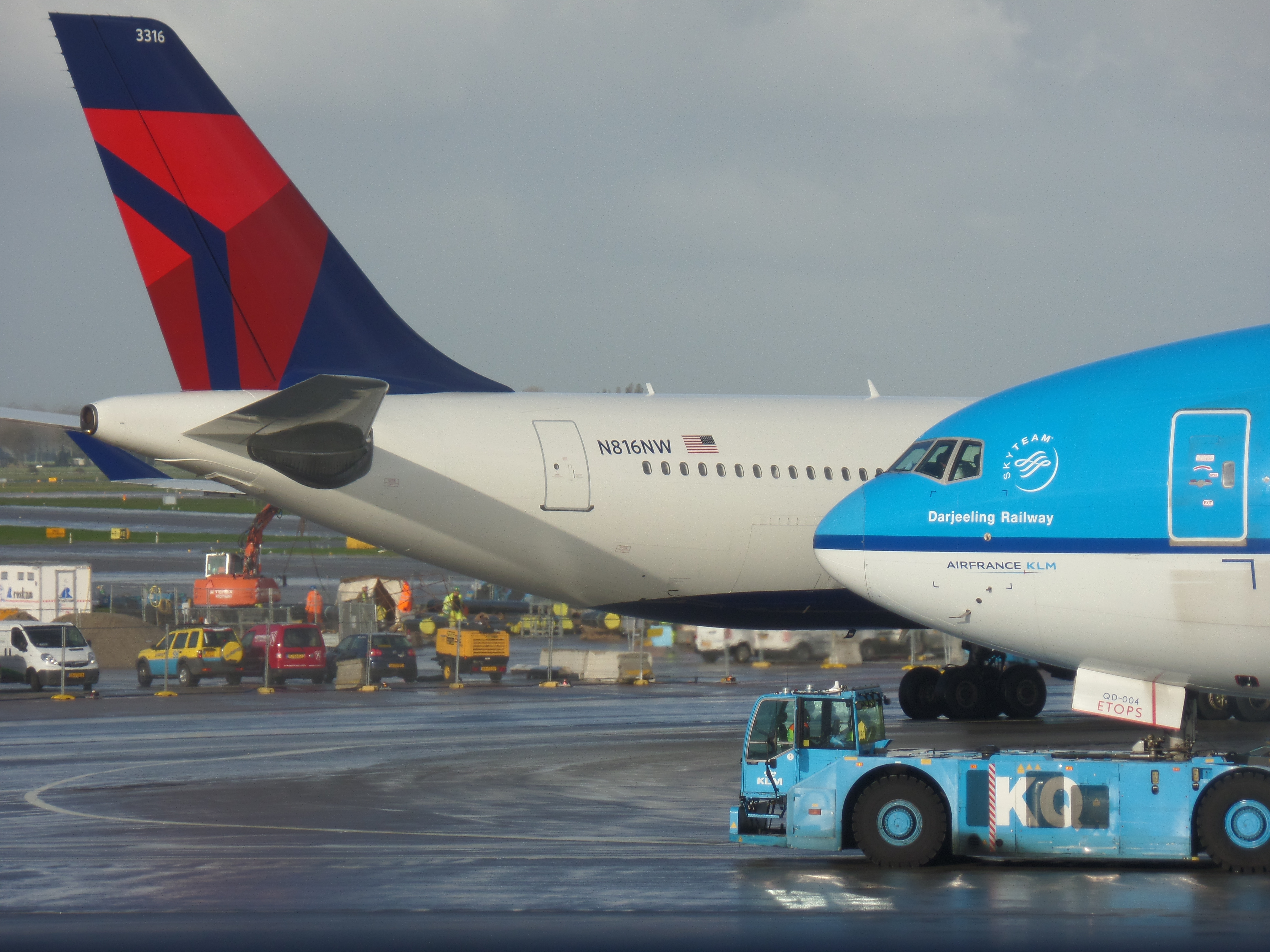 Delta Air Lines Airbus A330-323 N816NW and KLM Royal Dutch Airlines Boeing 777-206ER PH-BQD at Amsterdam Airport Schiphol on October 22, 2014.